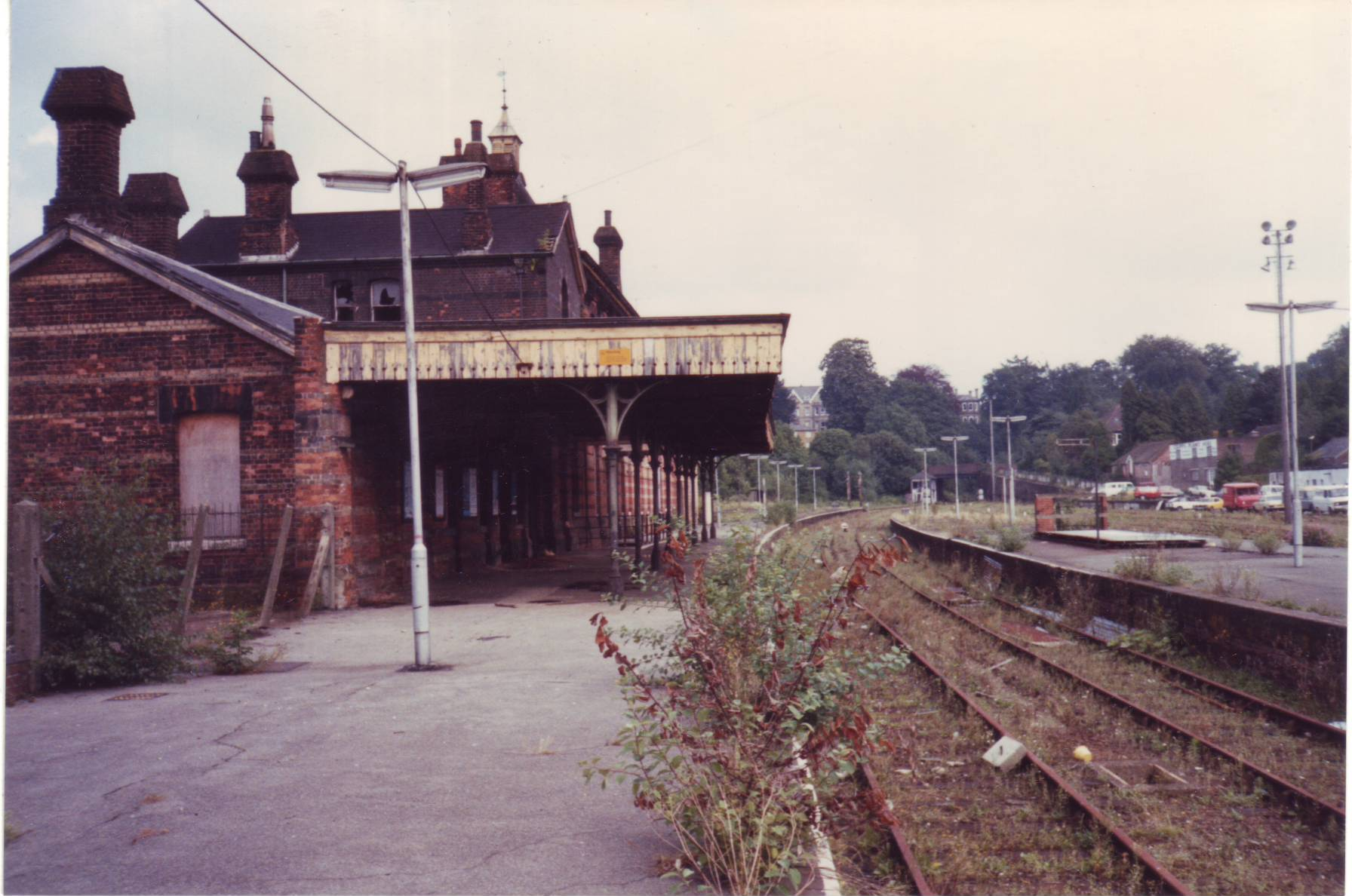 Tunbridge Wells West, Kent; looking east towards the Montacute Rd overbridge and Grove Tunnel from main station platform